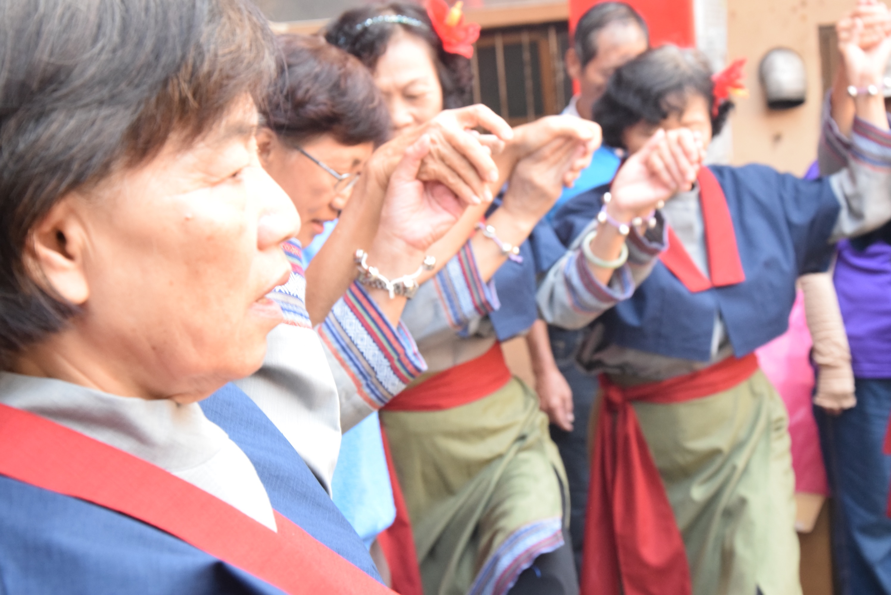 Papora women on the ceremony Khantian.